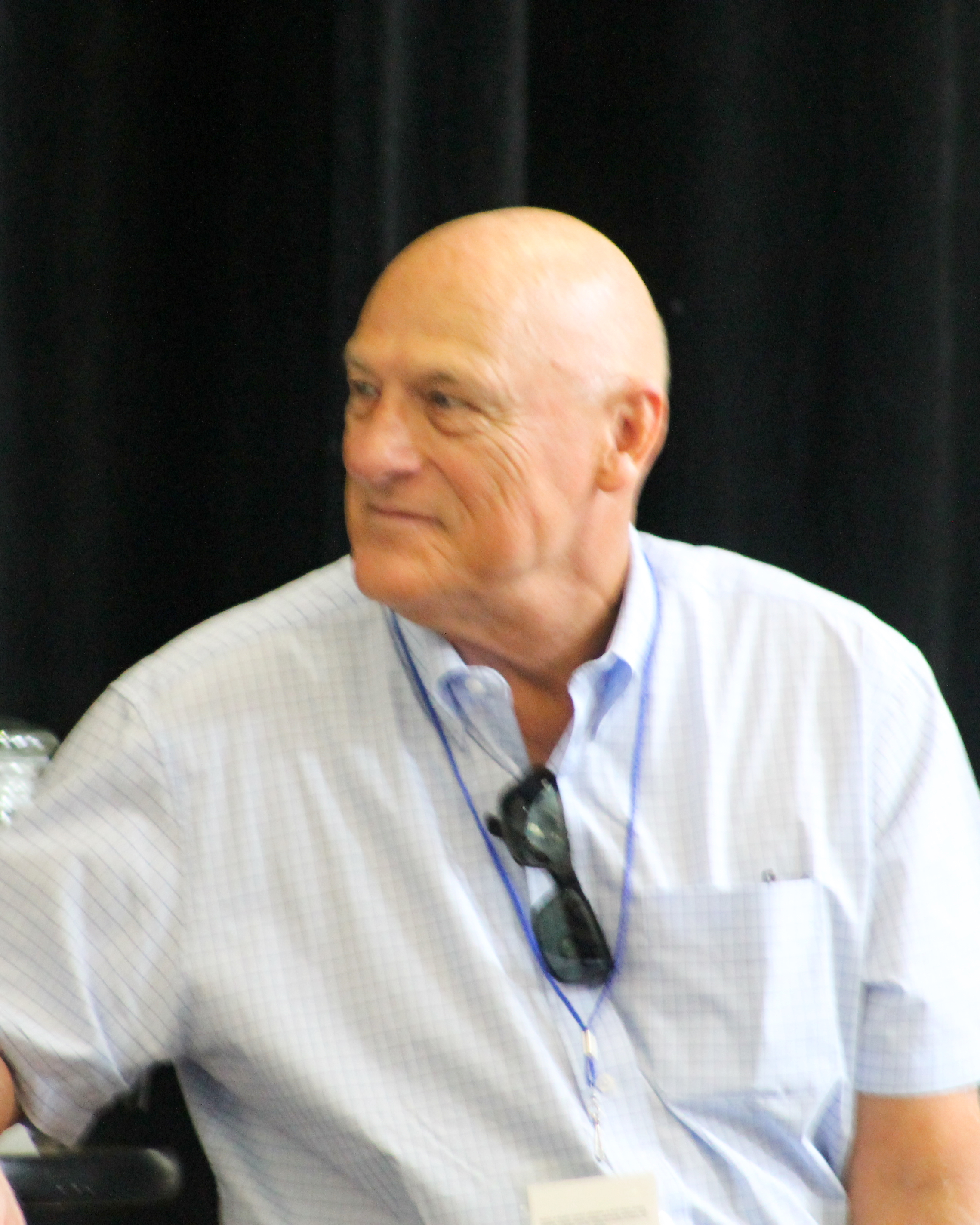 Former baseball player and manager Art Howe speaks at the annual convention of the Society for American Baseball Research.